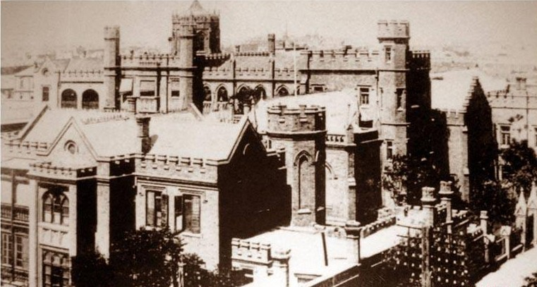 Tientsin Anglo－Chinese College was founded by Dr Harte in 1902,loacated in Rue de Takou,the French concession in Tianjin.It's the earliest college established by foreign Church